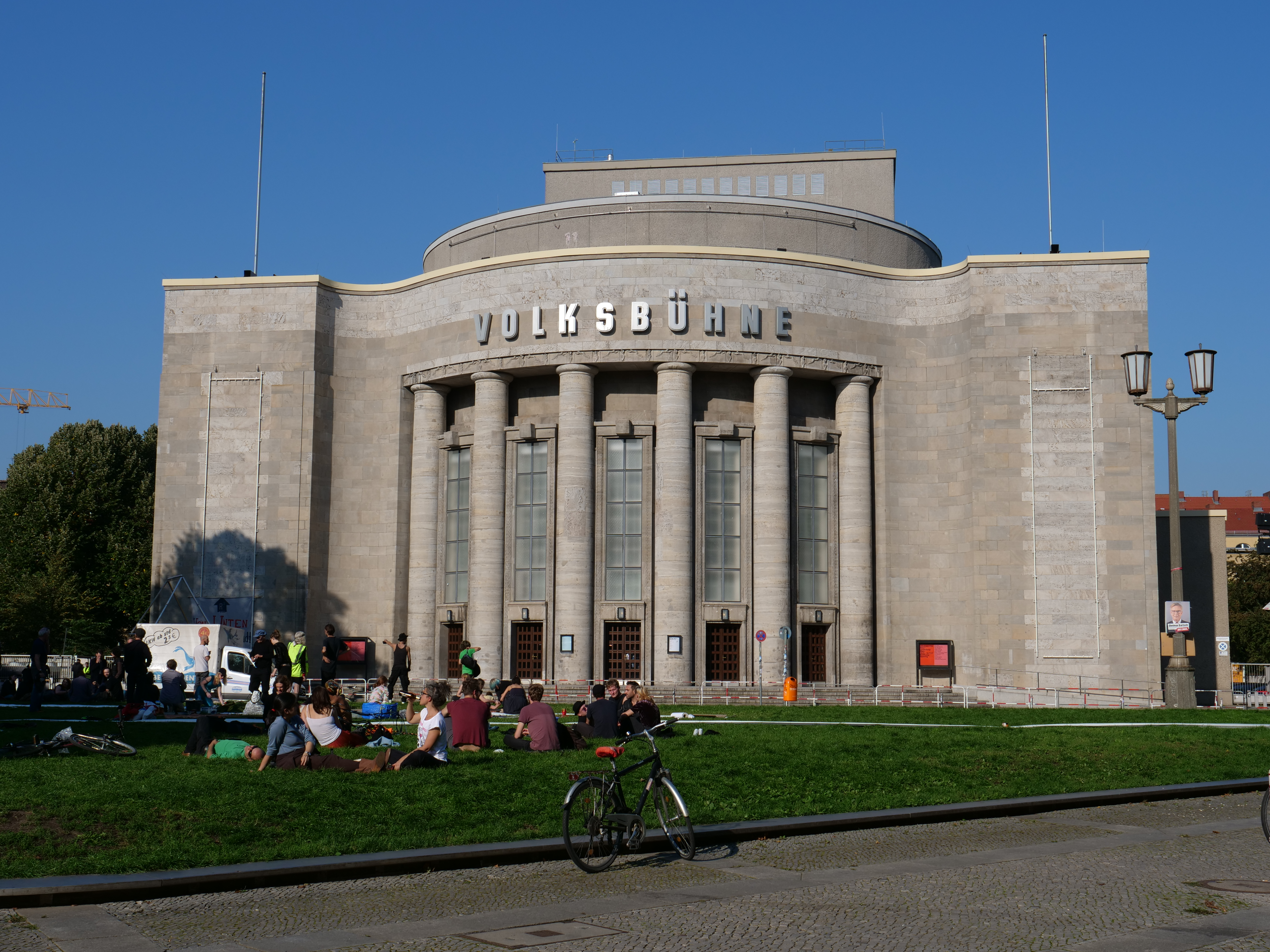 The "Volksbühne" Theater.This is a photograph of an architectural monument.